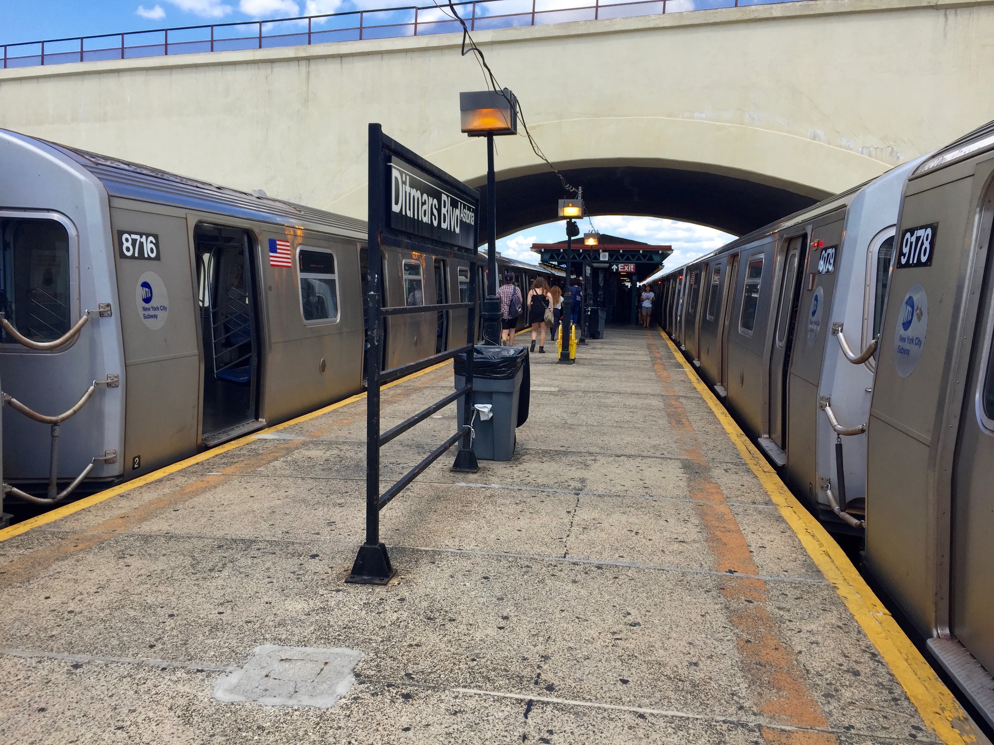 Platform at Astoria - Ditmars Blvd on the N/Q.